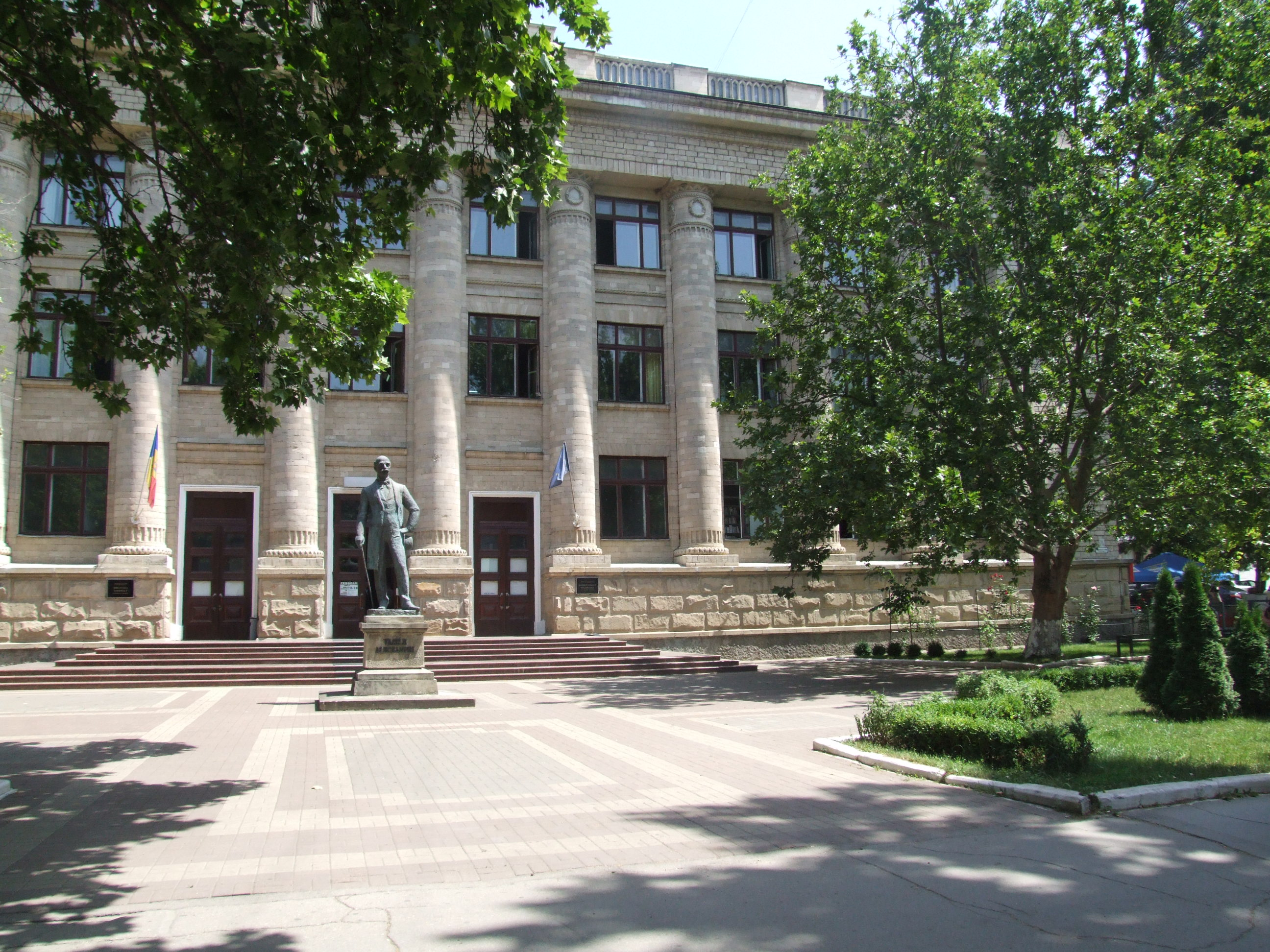 the national library in Chsinau